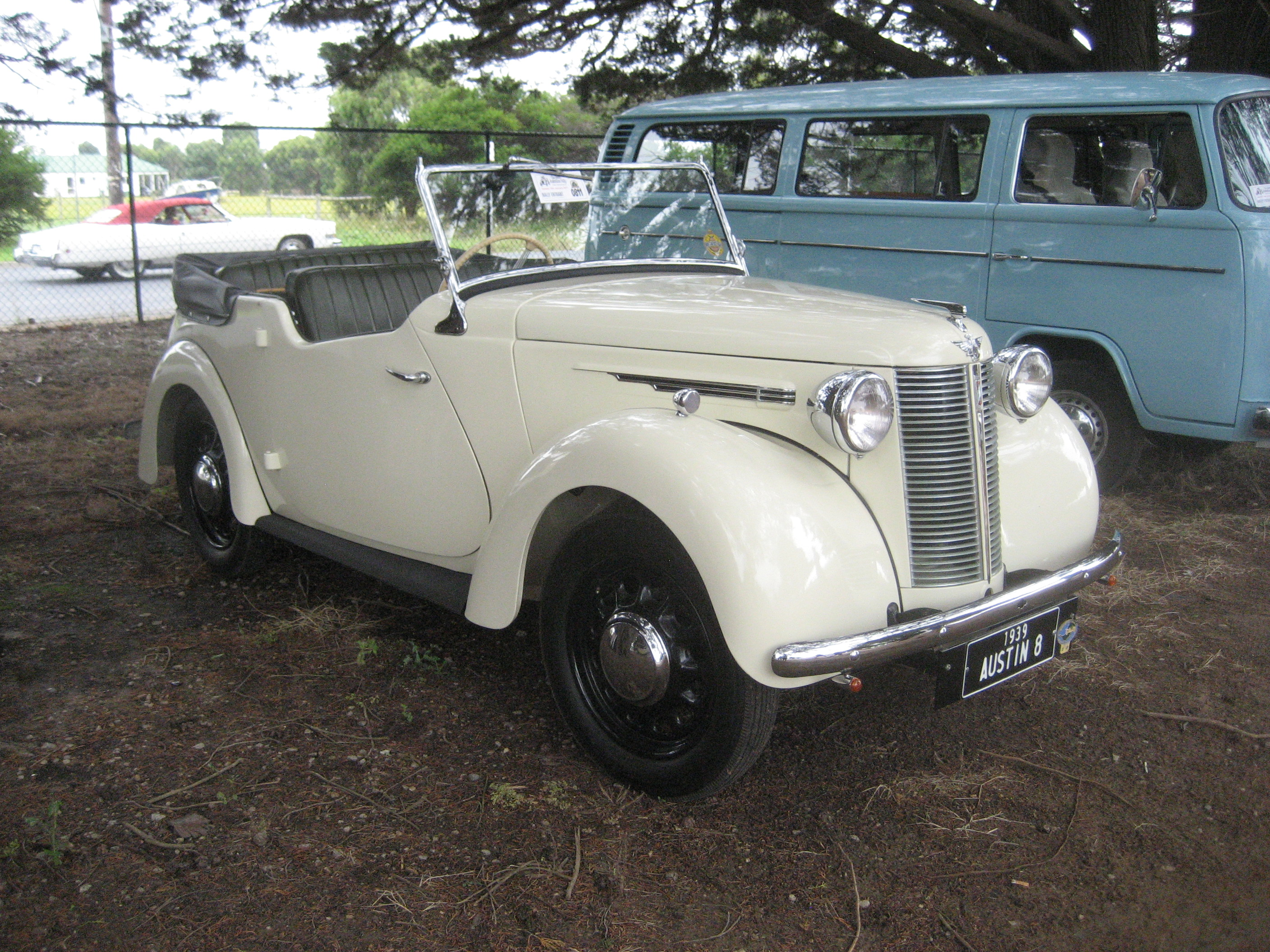 Built after the Austin 7 and before the A30, from 1939-47. Available in Saloon or Tourer. Engine; 900 cc sidevalve 4 cyl